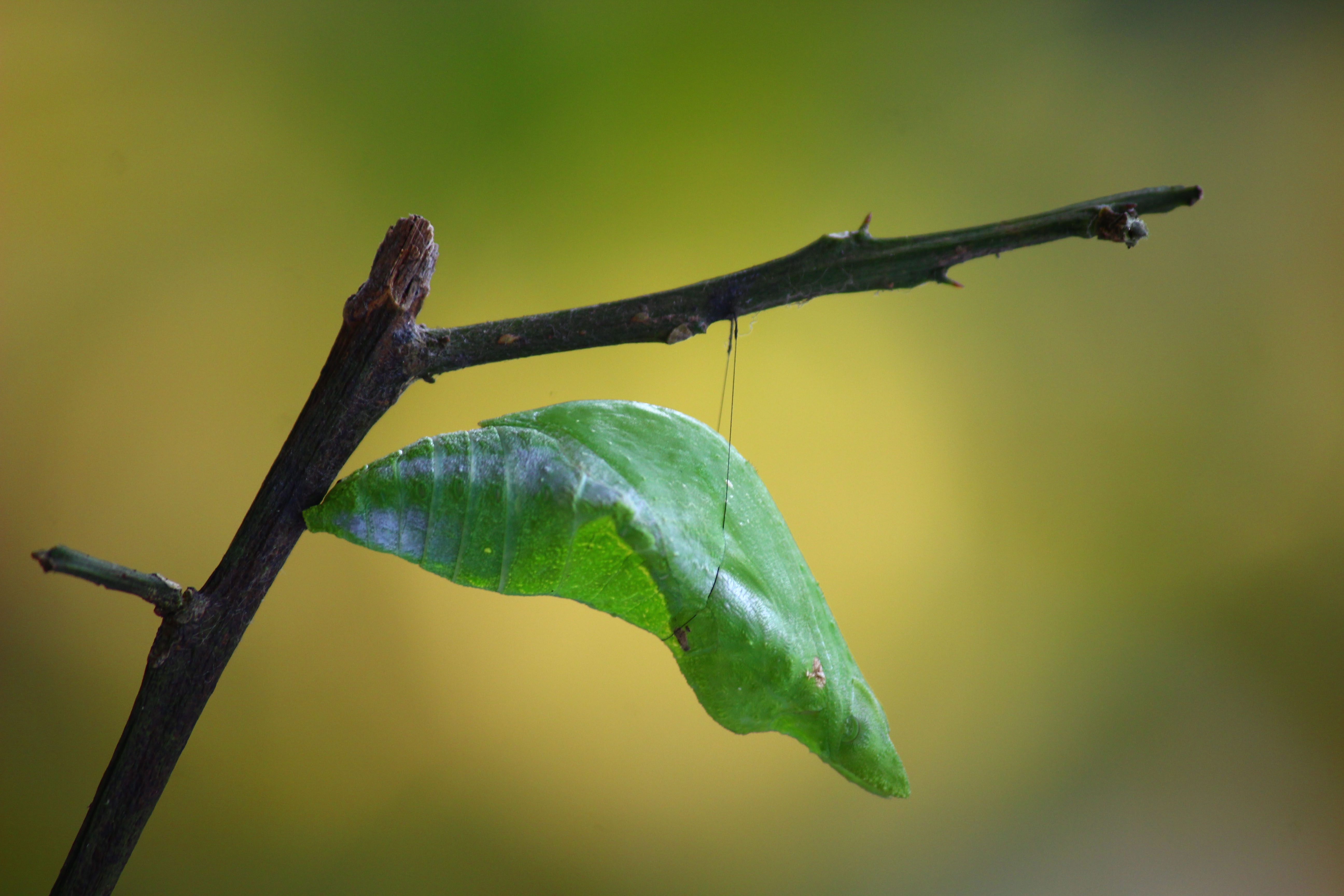 Papilio polymnestor polymnestor Cramer, 1775 – Indian Blue Mormon